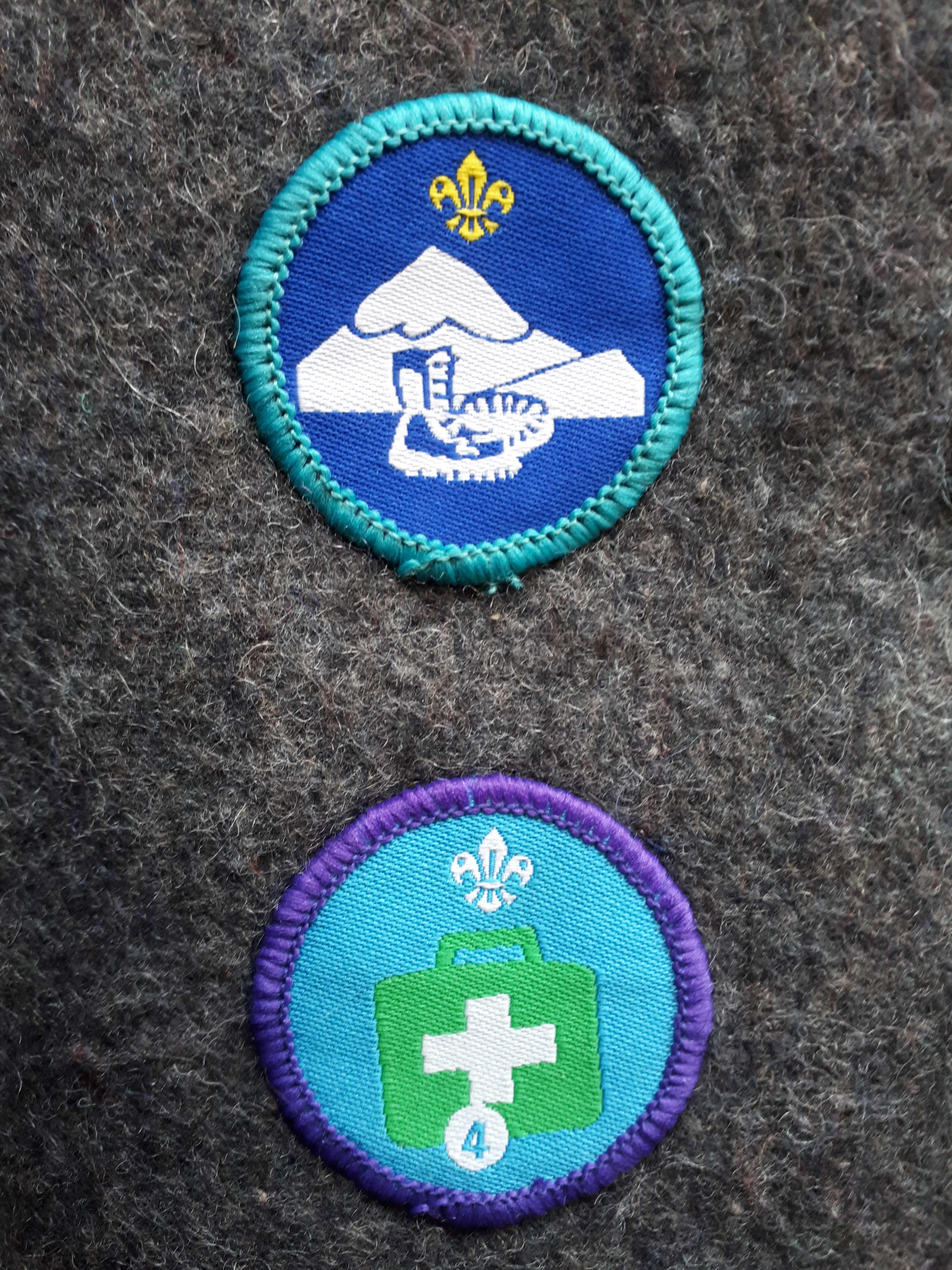 Two badge designs of the United Kingdom's Scout Association. The top badge is in the design used for Explorer Scout Activity badges and is a Hillwalker activity badge. The lower badge is a Staged Activity badge that can be earned by any of the under 18 sections and is an Emergency Aid stage 4 Staged Activity badge.